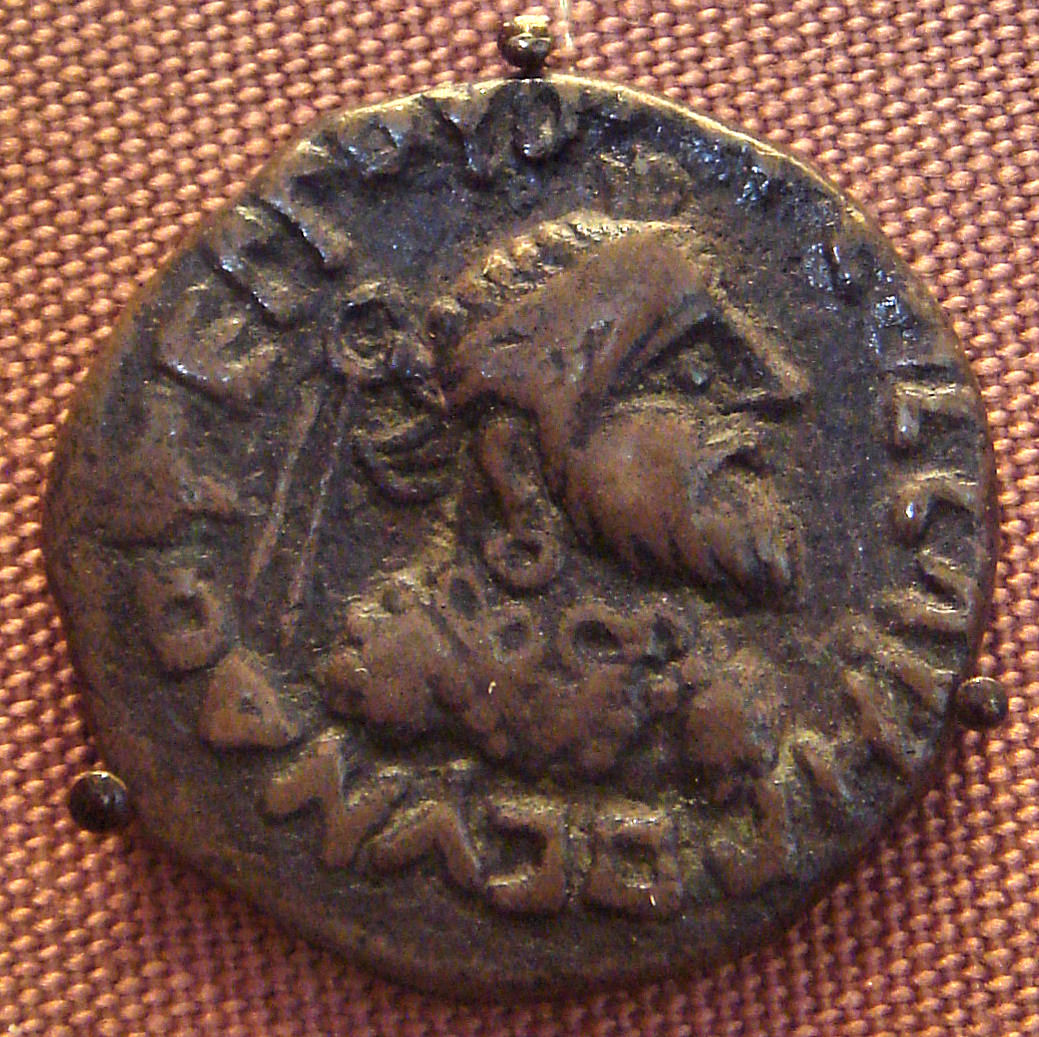 Gondophares coin. British Museum. Personal photograph 2005.